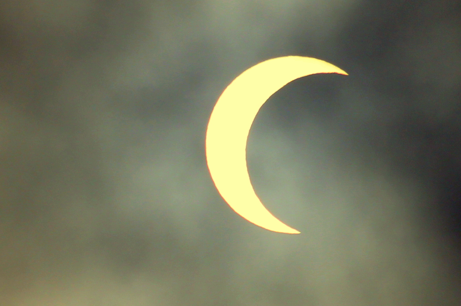 Solar Eclipse 2012 seen from San Juan Capistrano